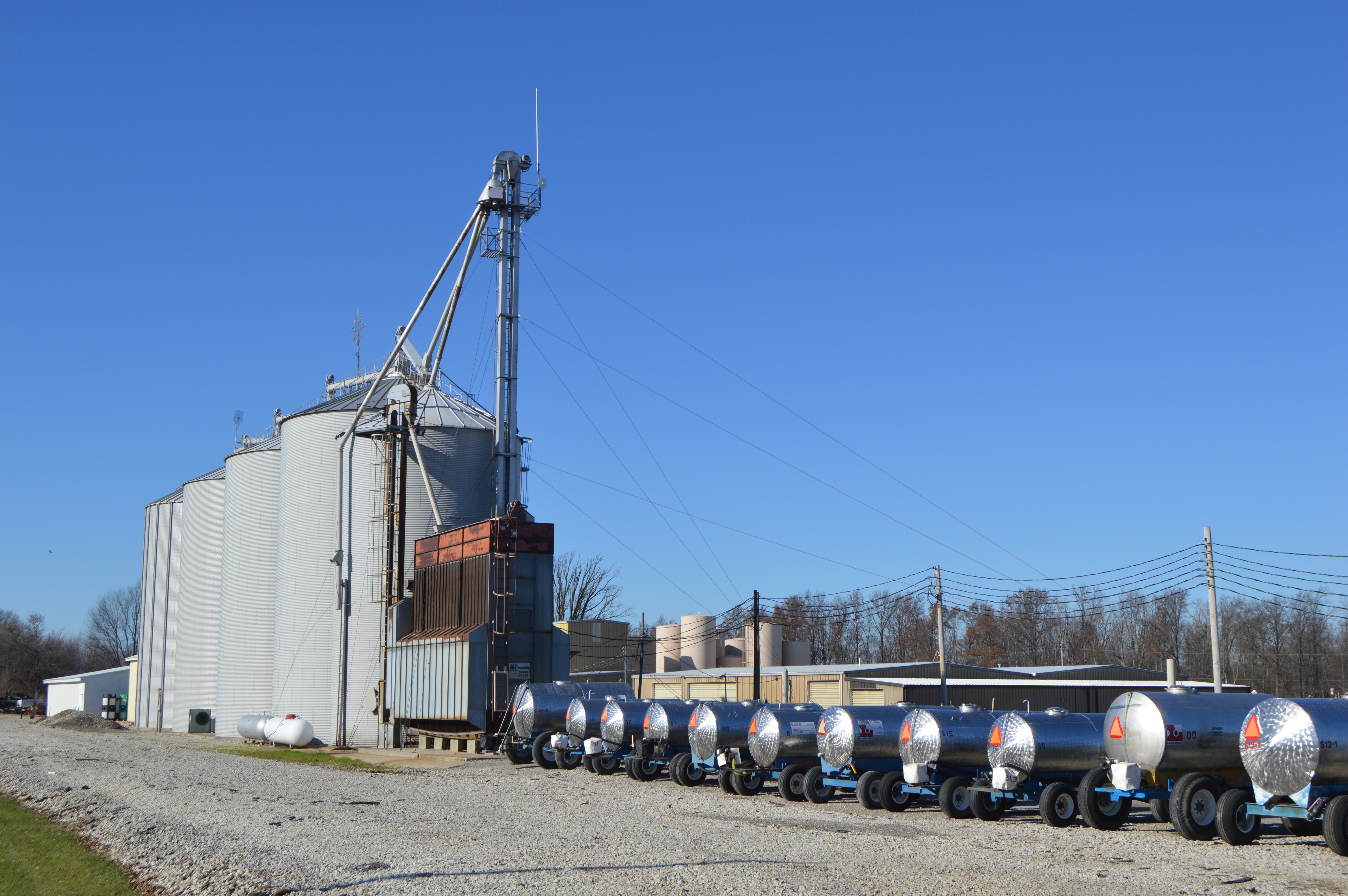 Tankers and the Glenmore grain elevator, located on the western side of Glenmore Road in Glenmore, Ohio, United States.